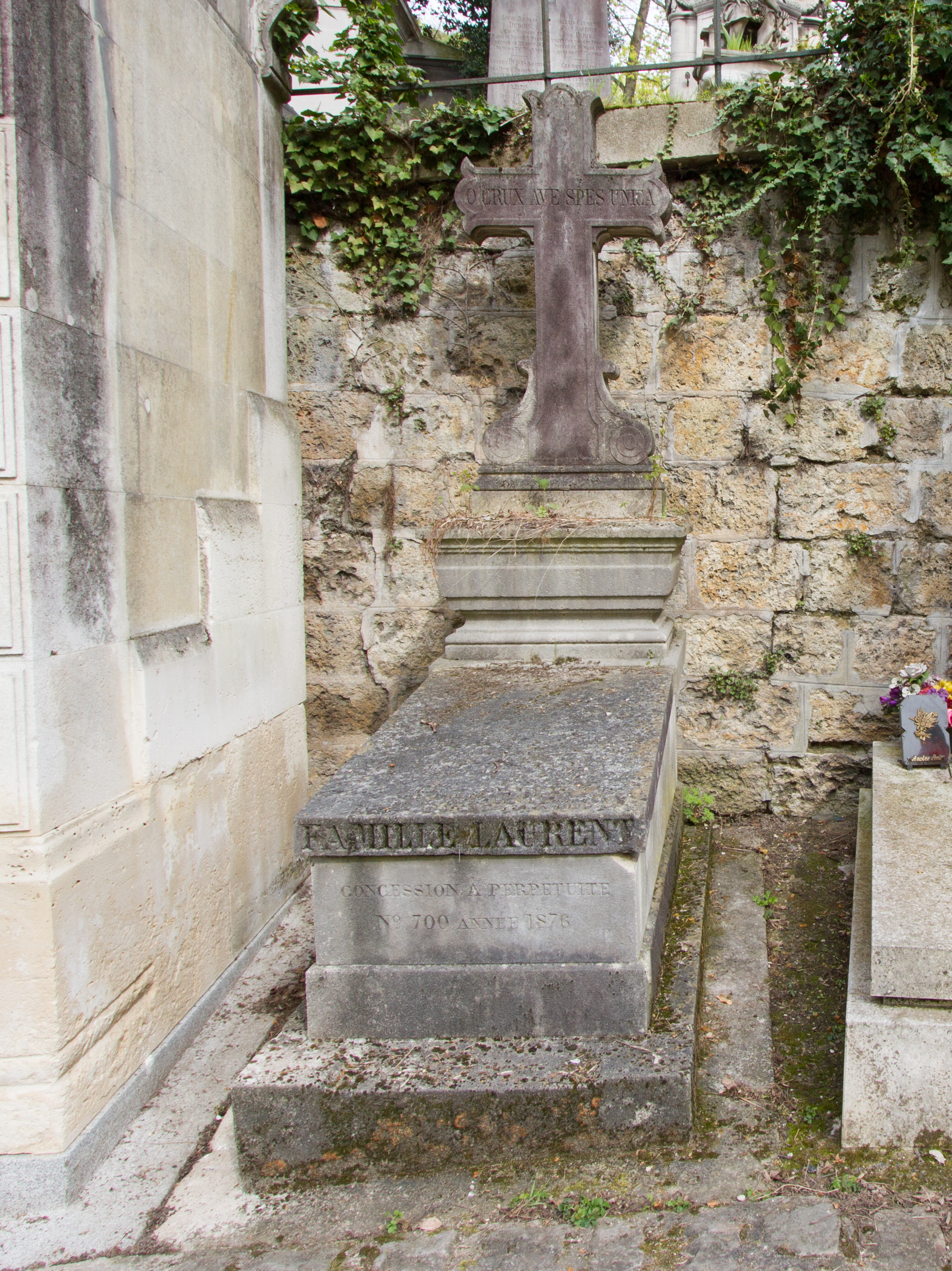 Père-Lachaise Cemetery